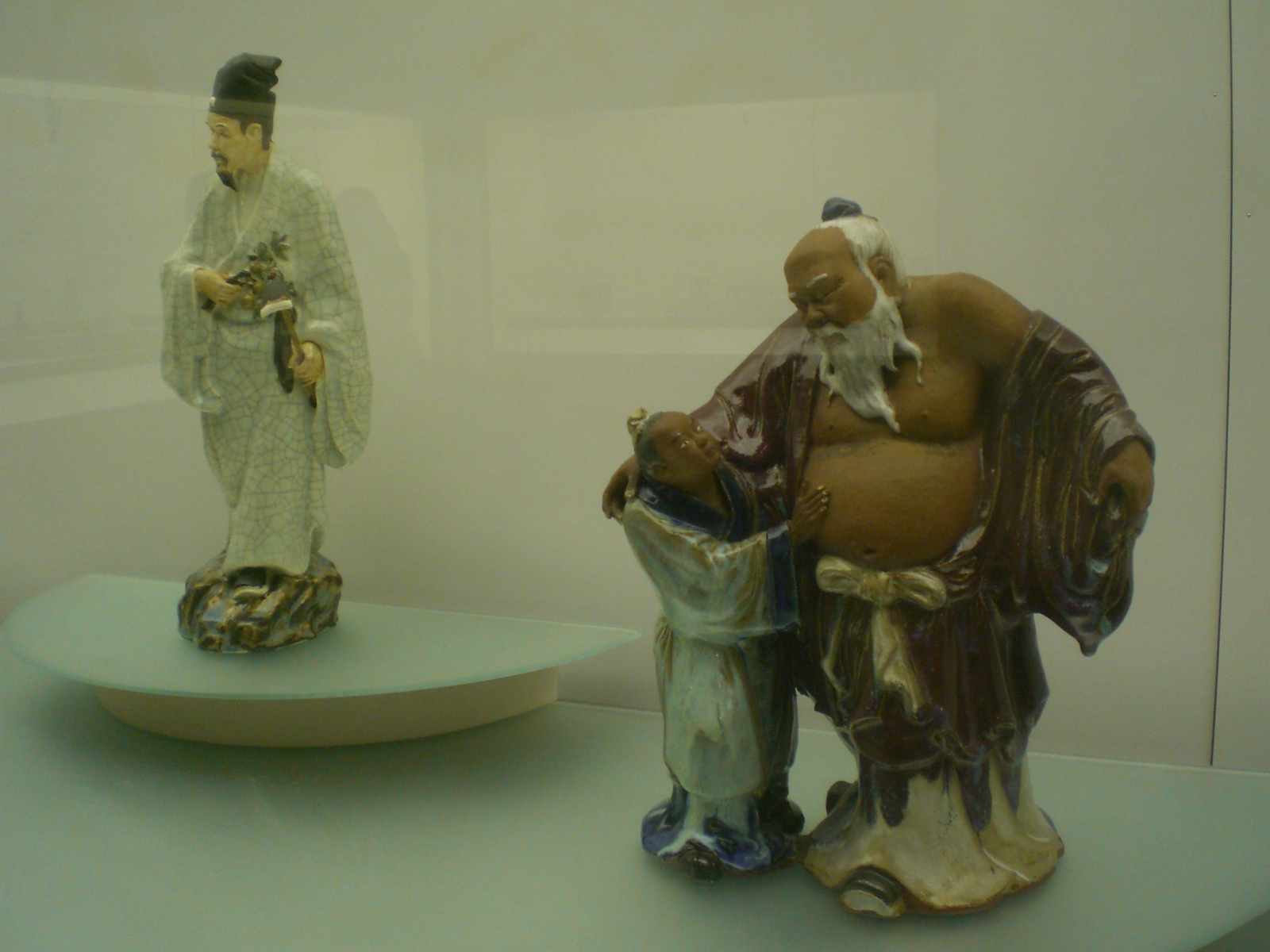 尖沙咀 香港藝術館 中國男性 藝術中的中國人物 雕塑 男性雕塑 哲學家 詩人 作家 陶淵明